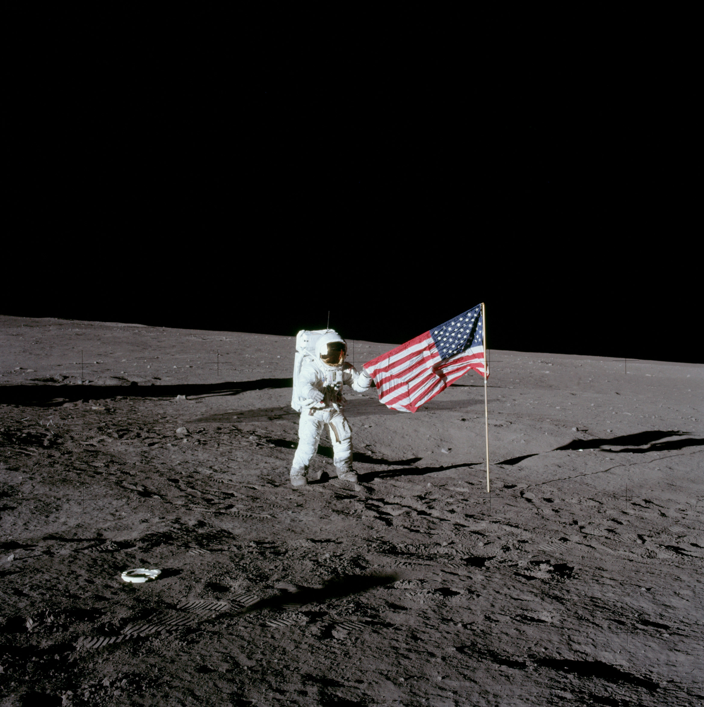 Charles Conrad Jr. beside the US flag during Apollo 12This is figure 1-17 of the Apollo 12 Preliminary Science Report, which has the following caption:The crew erected the American flag after landing and collecting the contingency sample. The long shadow of the LM and the bleak lunar surface serve as a fitting background.